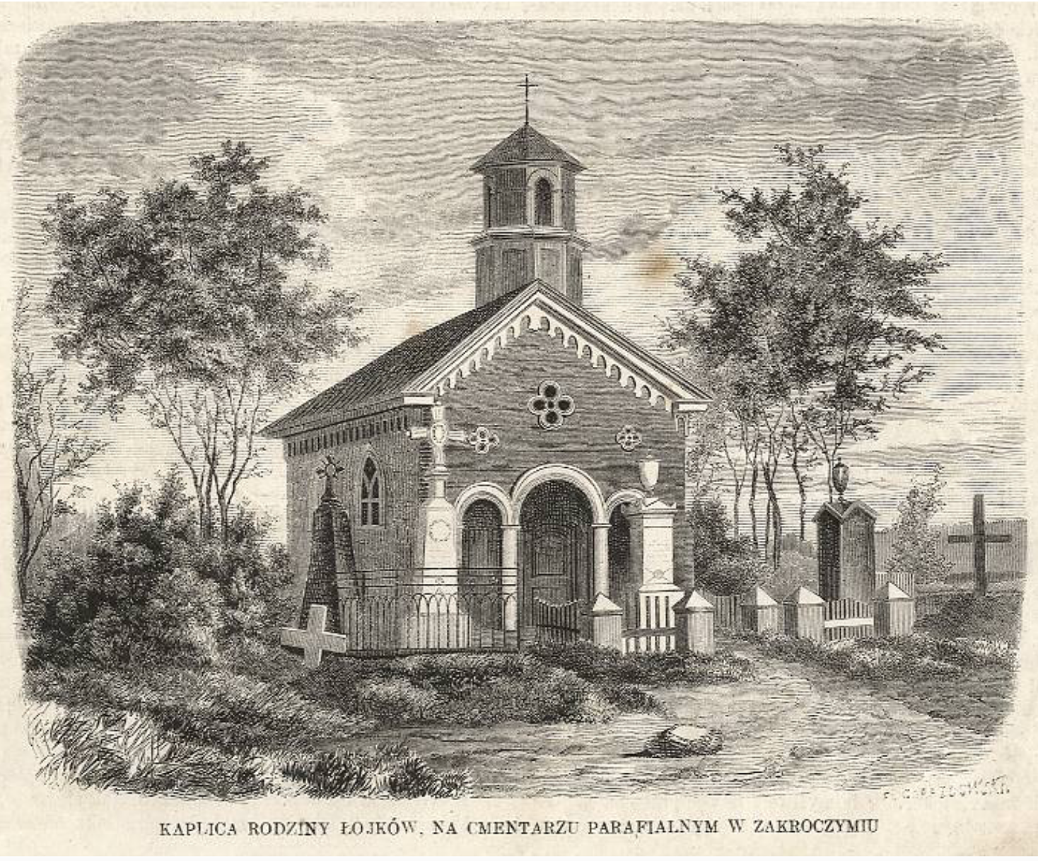 Łojko family cemetery chapel in Zakroczym, Poland